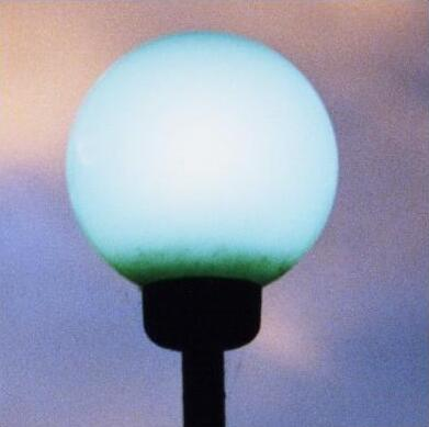 globe: Globe lamp post in South Co Dublin